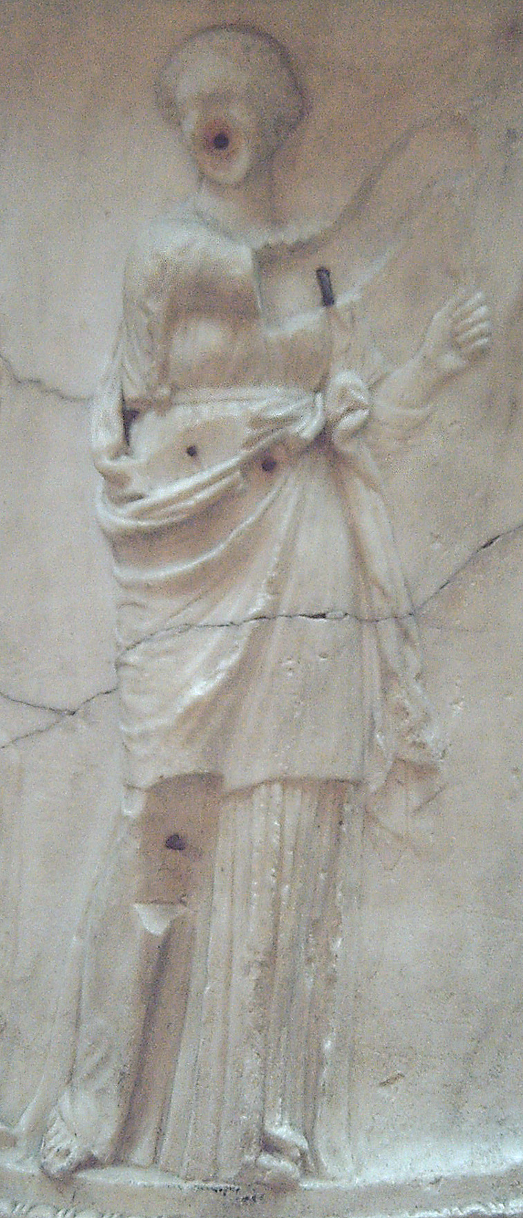 Relief figure of moira Lachesis.